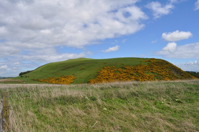 Hill of Beath from Keirsbeath Ridge